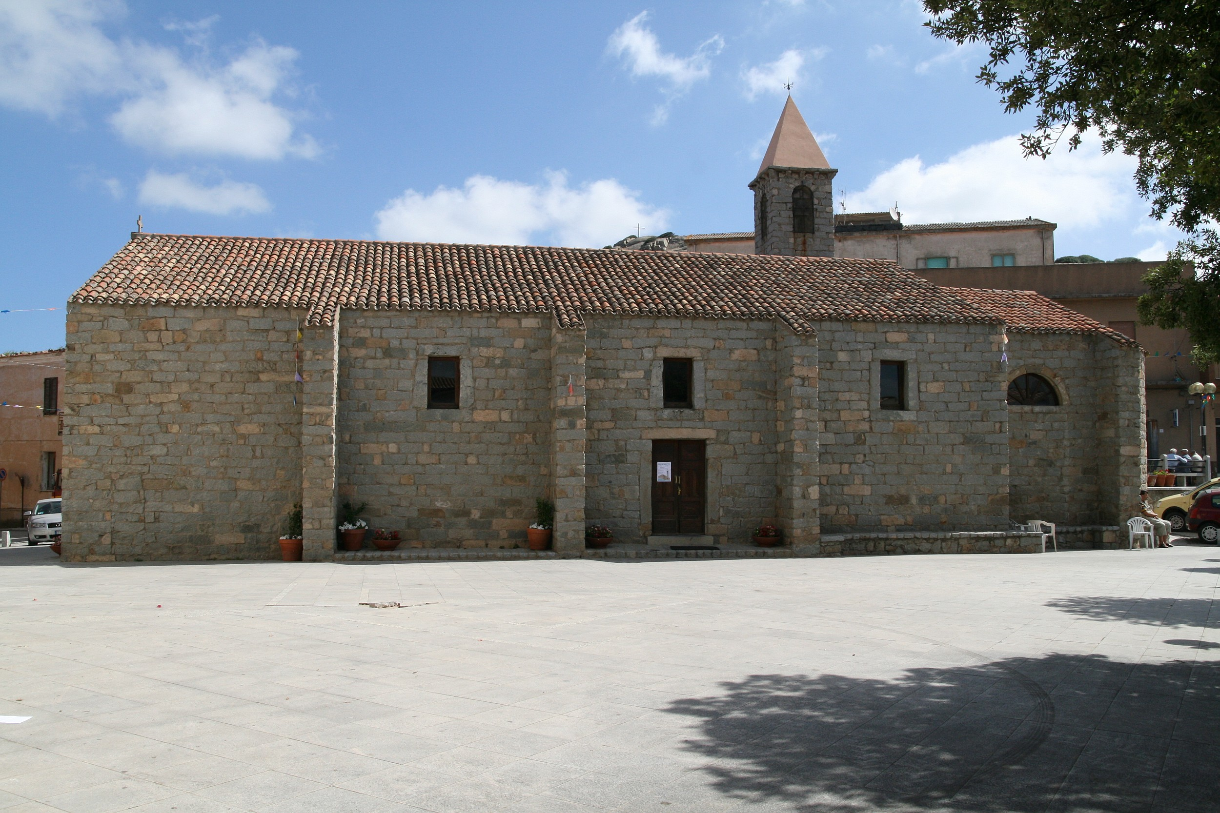 Santissima Trinità church in the central square of Trinità d'Agultu, Sardinia, Italy. First half of 18th century.